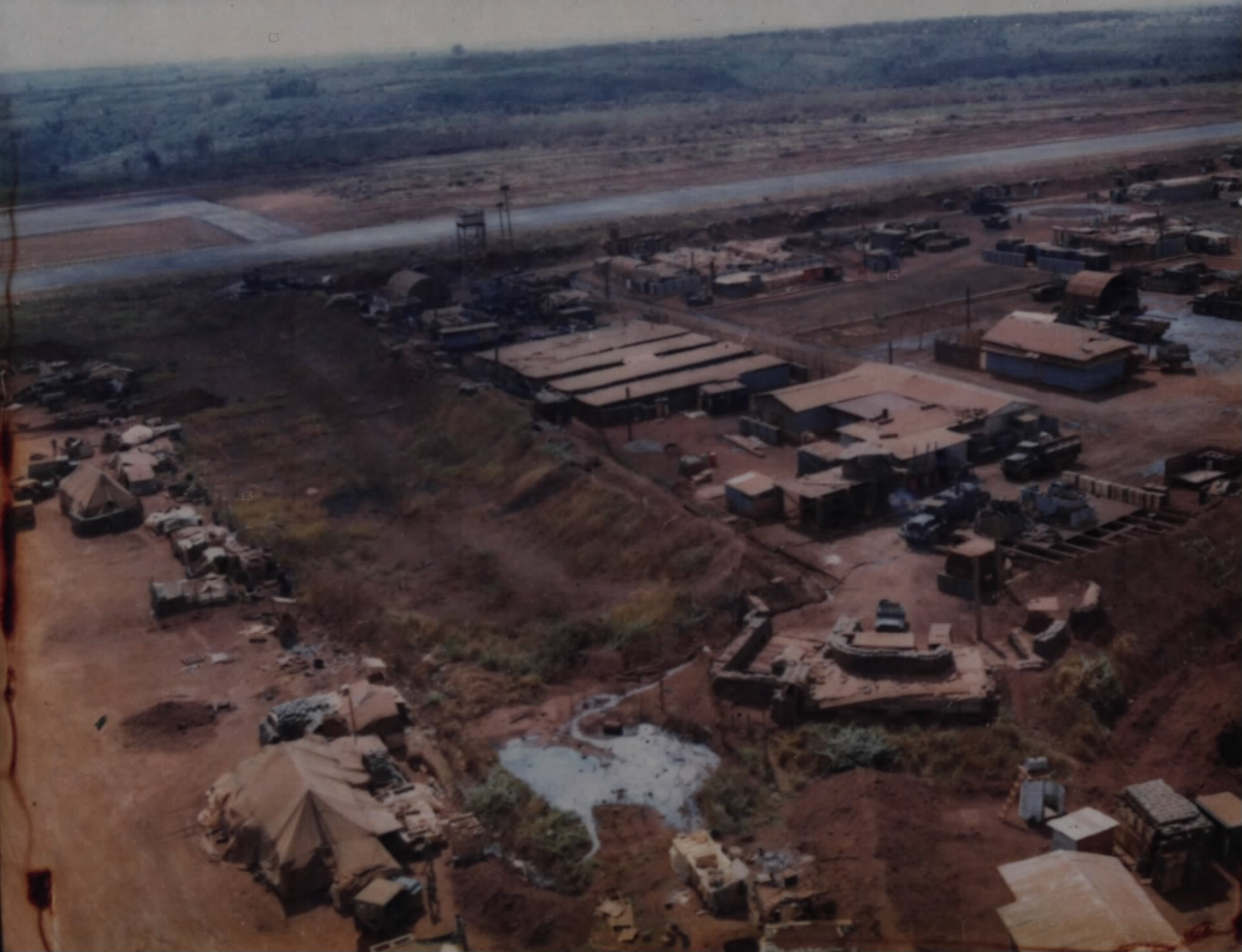 Aerial view of the Signal Site at Song Be South.